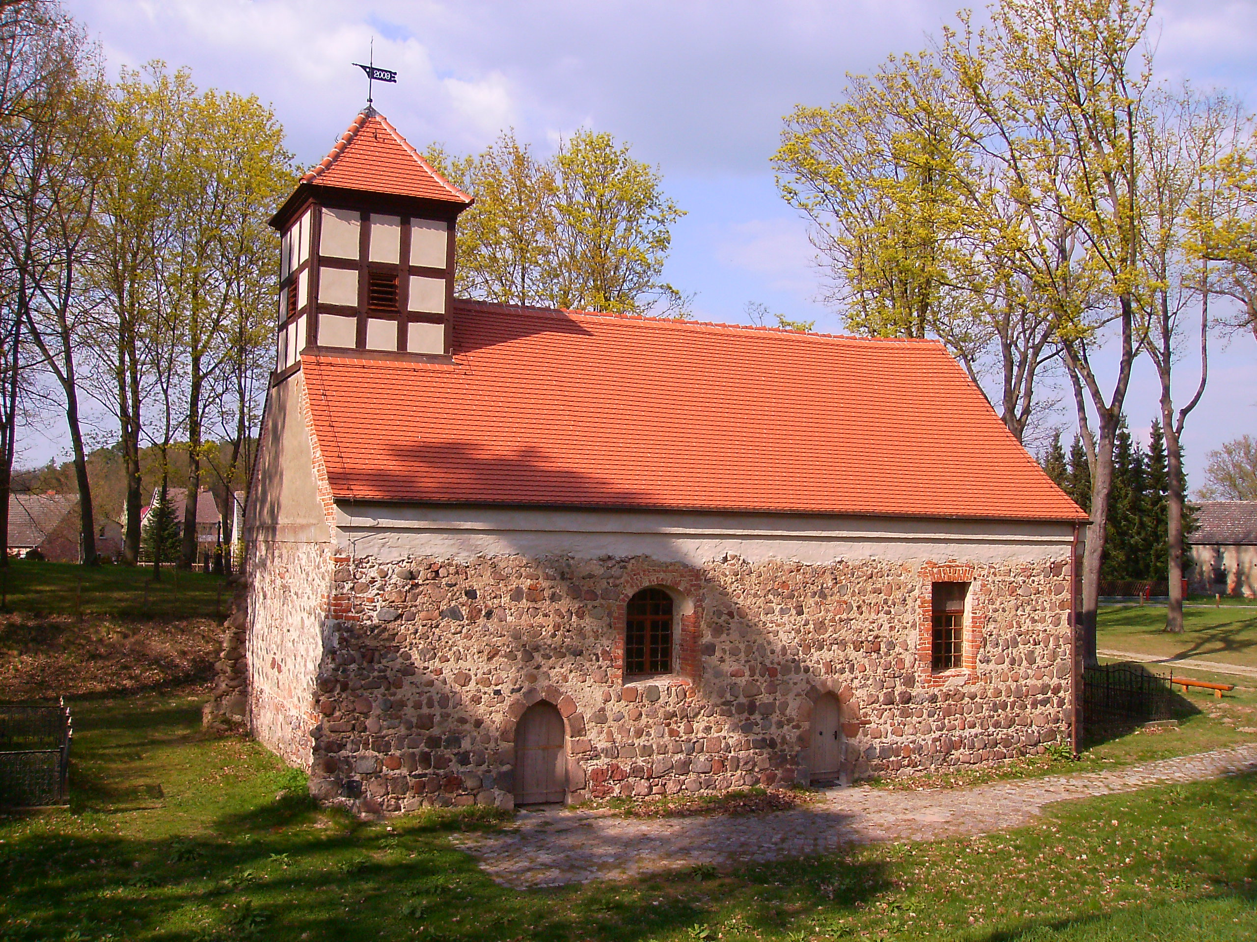 Church Dahmsdorf in county Brandenburg / Germany.